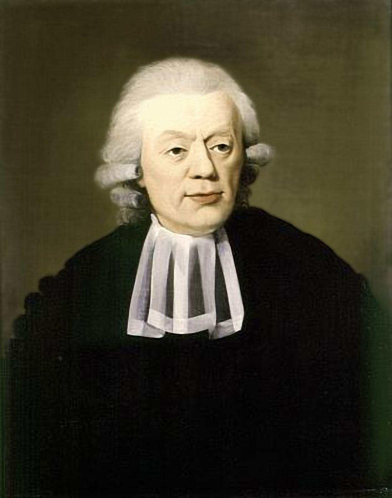 Matthias Steevens van Geuns (1735-1817), Dutch physician and botanist